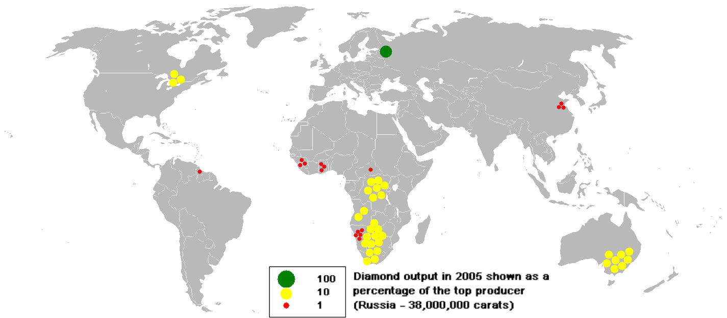 This bubble map shows the global distribution of diamond output. In 2005 as a percentage of the top producer (Russia - 38,000,000 carats). This map is consistent with incomplete set of data too as long as the top producer is known. It resolves the accessibility issues faced by colour-coded maps that may not be properly rendered in old computer screens. Data was extracted on 29th May 2007. Source - Based on Image:BlankMap-World.png